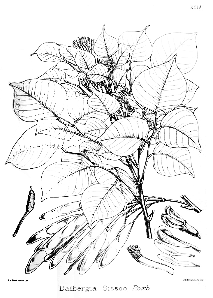 "Illustrations of the Forest Flora of North-West and Central India", 1874